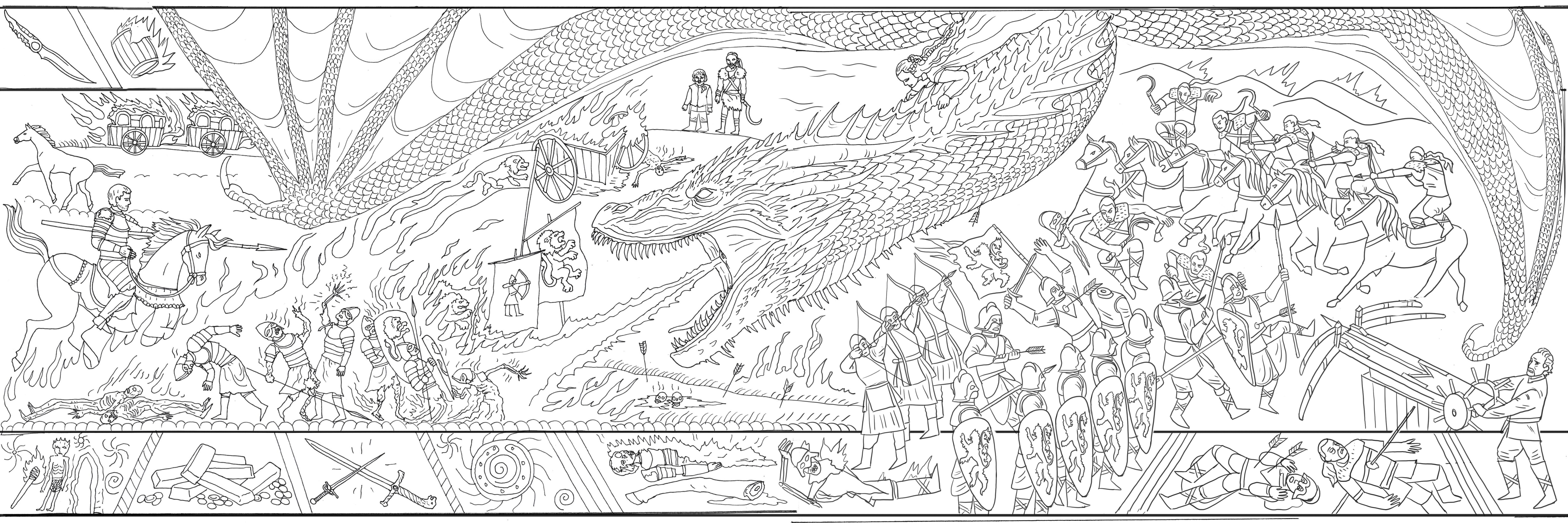 Battle of the Goldroad from Game of Thrones - Season 7 Episode 4. Outline sketch for the official Game of Thrones tapestry produced in Northern Ireland.